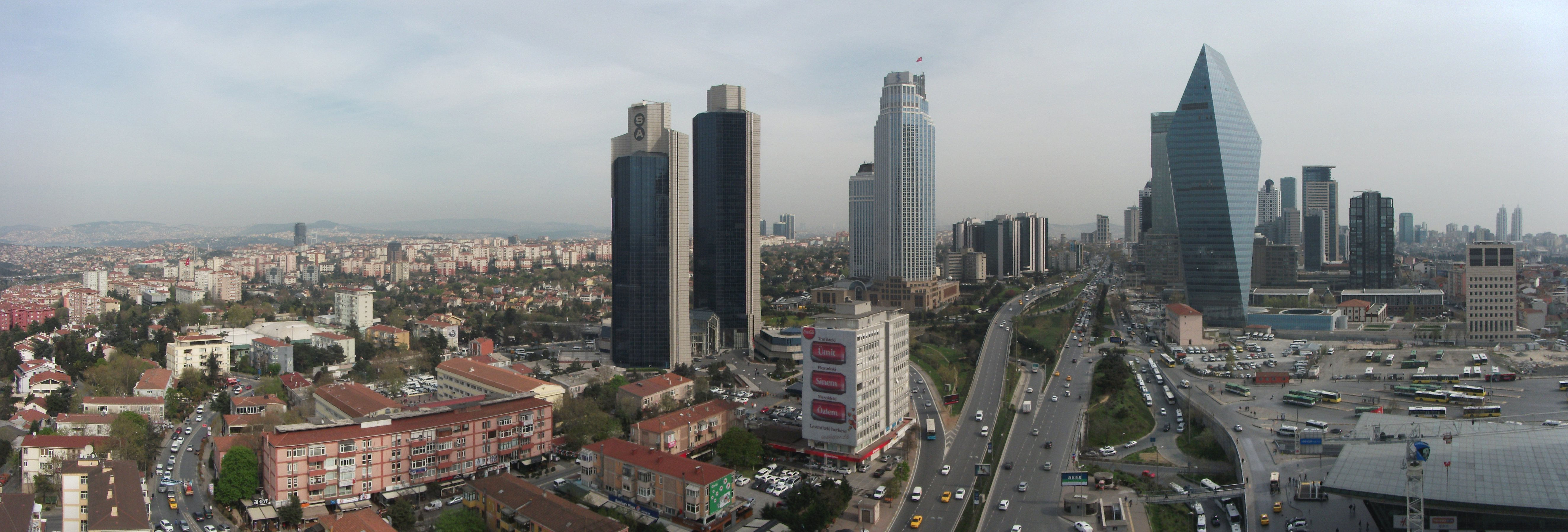 Panorama of Levent 4, Istanbul